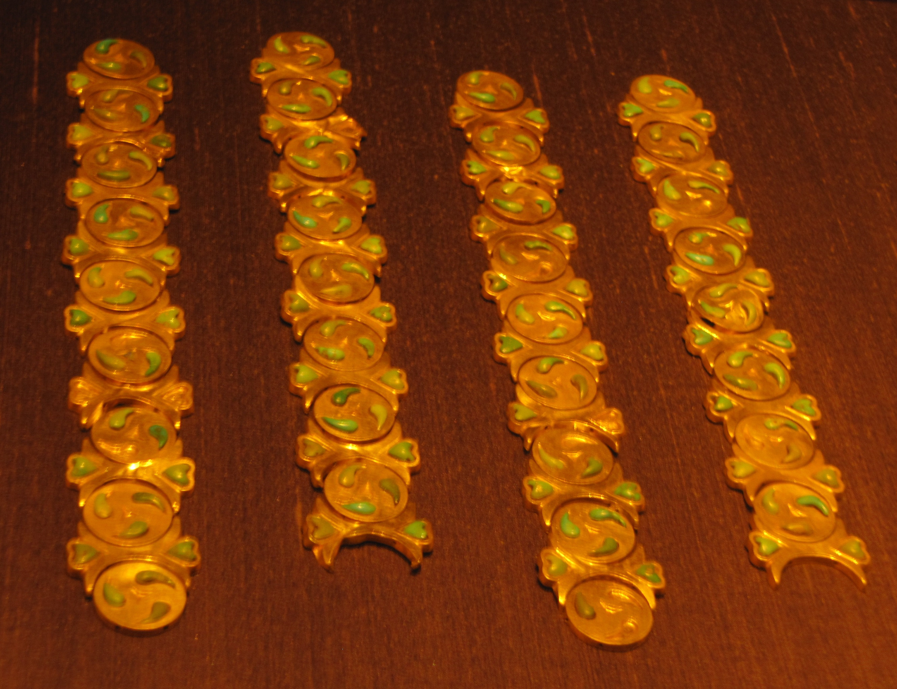 Elements of an ornamental object, Tillya Tepe, Tomb II, Second quarter of the 1st century A.D., Gold, turquoise, National Museum of Afghanistan, Personal photograph 2011, British Museum.